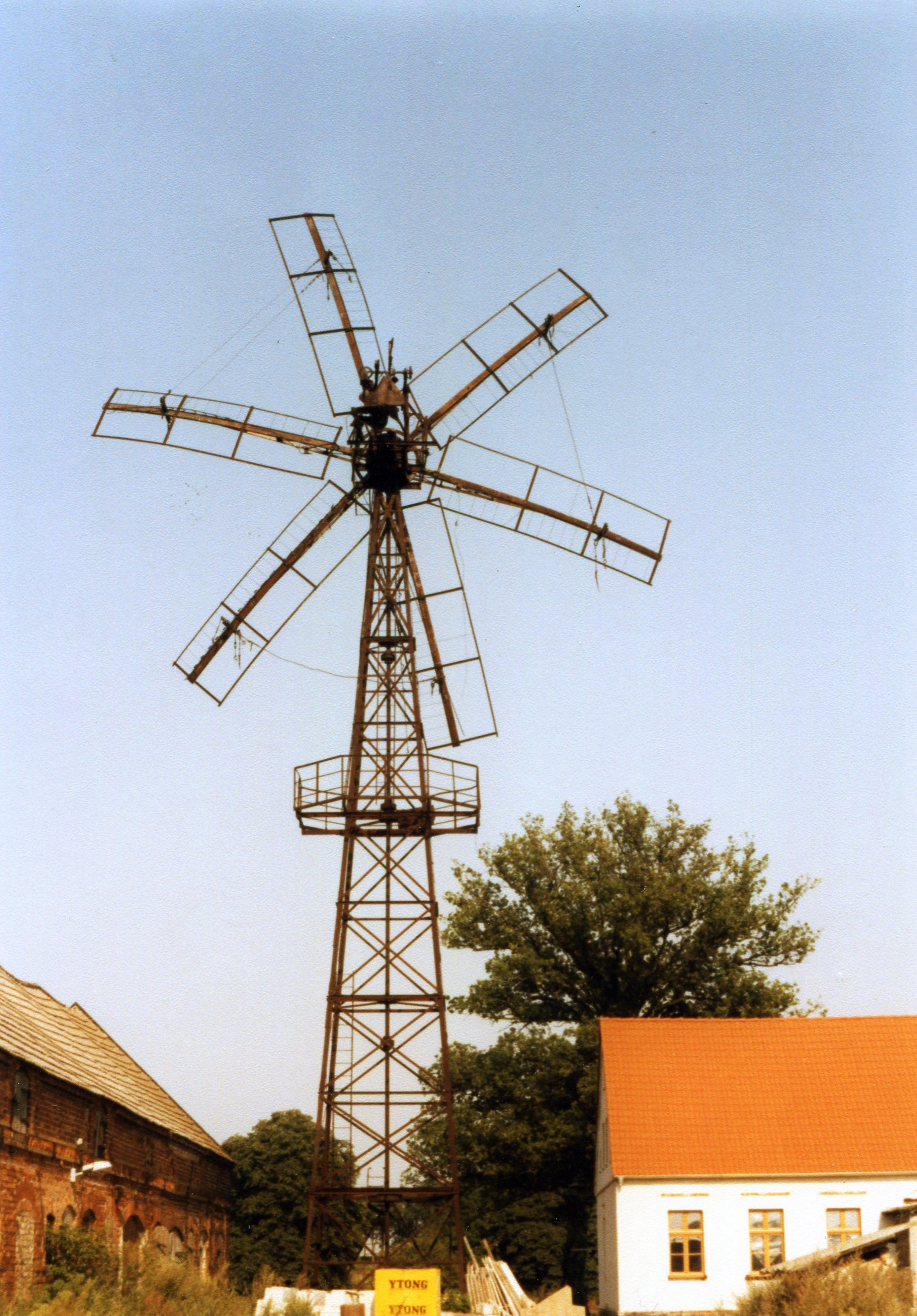 Desolate windmill Libbenichen near Berlin in 1996